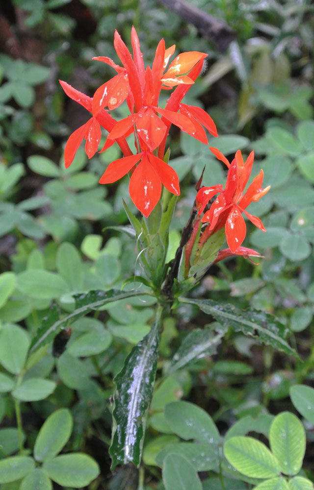 A widespread species in the Neotropics. Photo from Cotacocha Lodge, near Tena, Ecuador. In context at